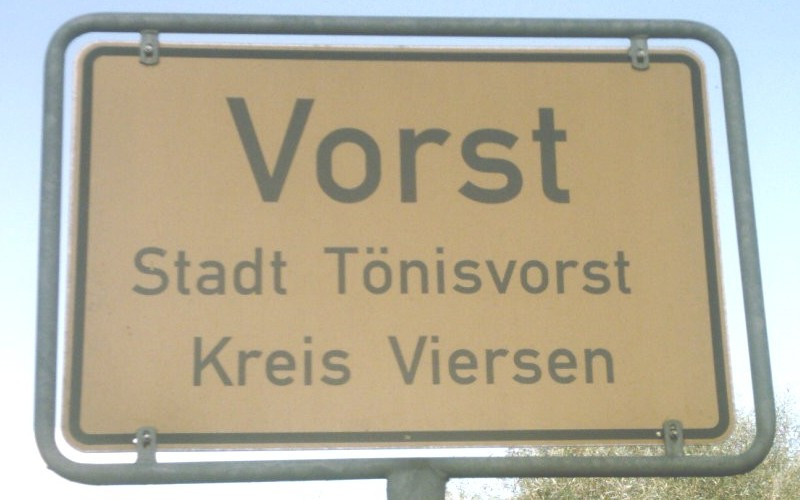 City Limit Sign: Vorst, Tönisvorst, Germany